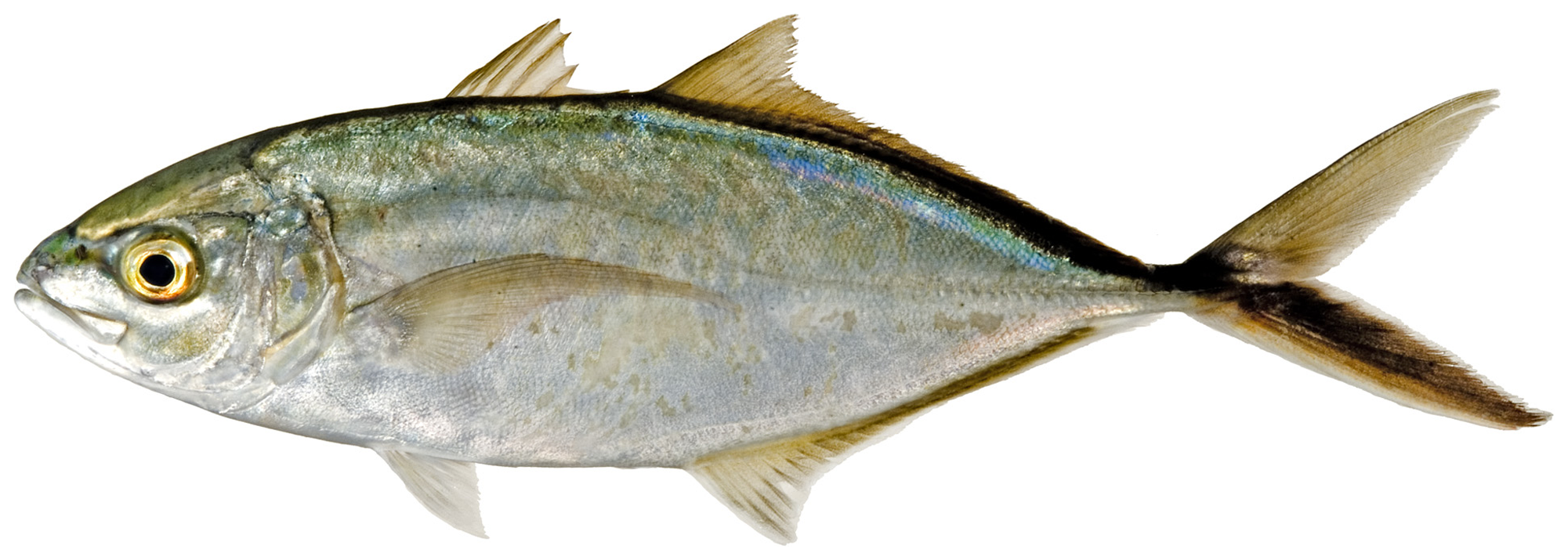 Caranx ruber (Bloch, 1793)—bar jack, 260.8 mm SL. Photo by JT Williams.